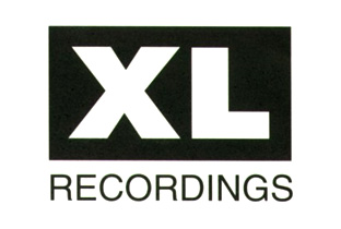 XL Recordings logo